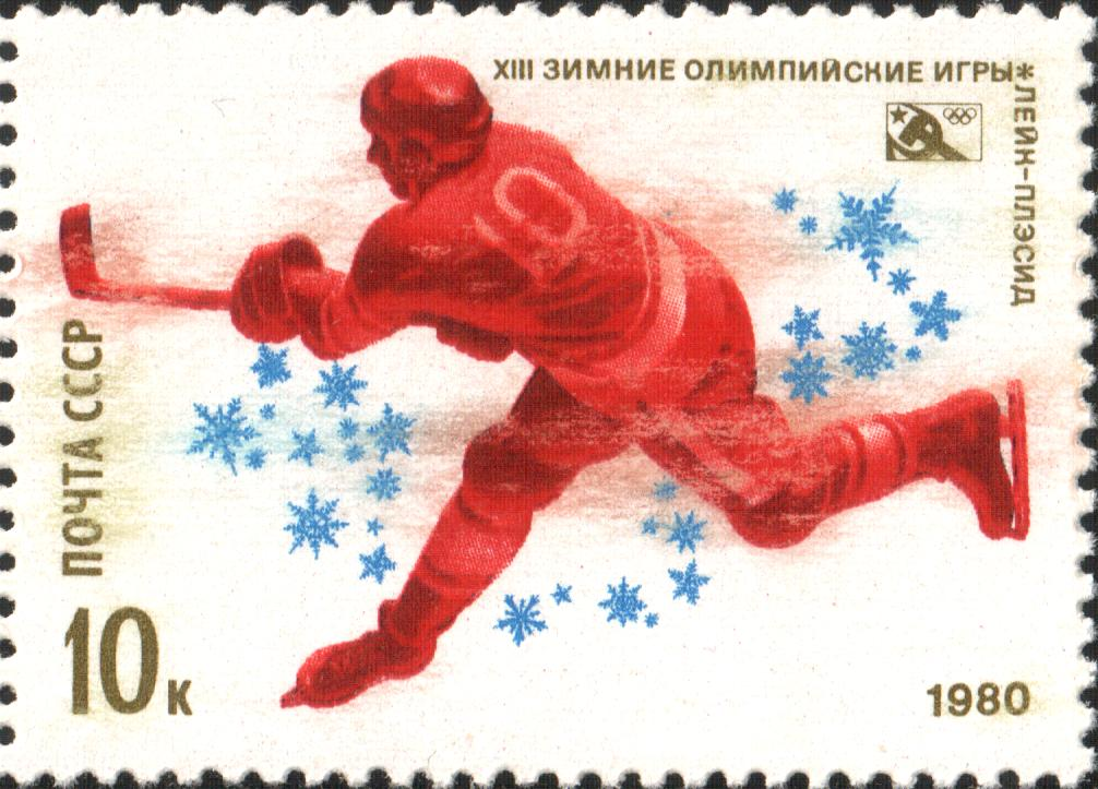 USSR stamp